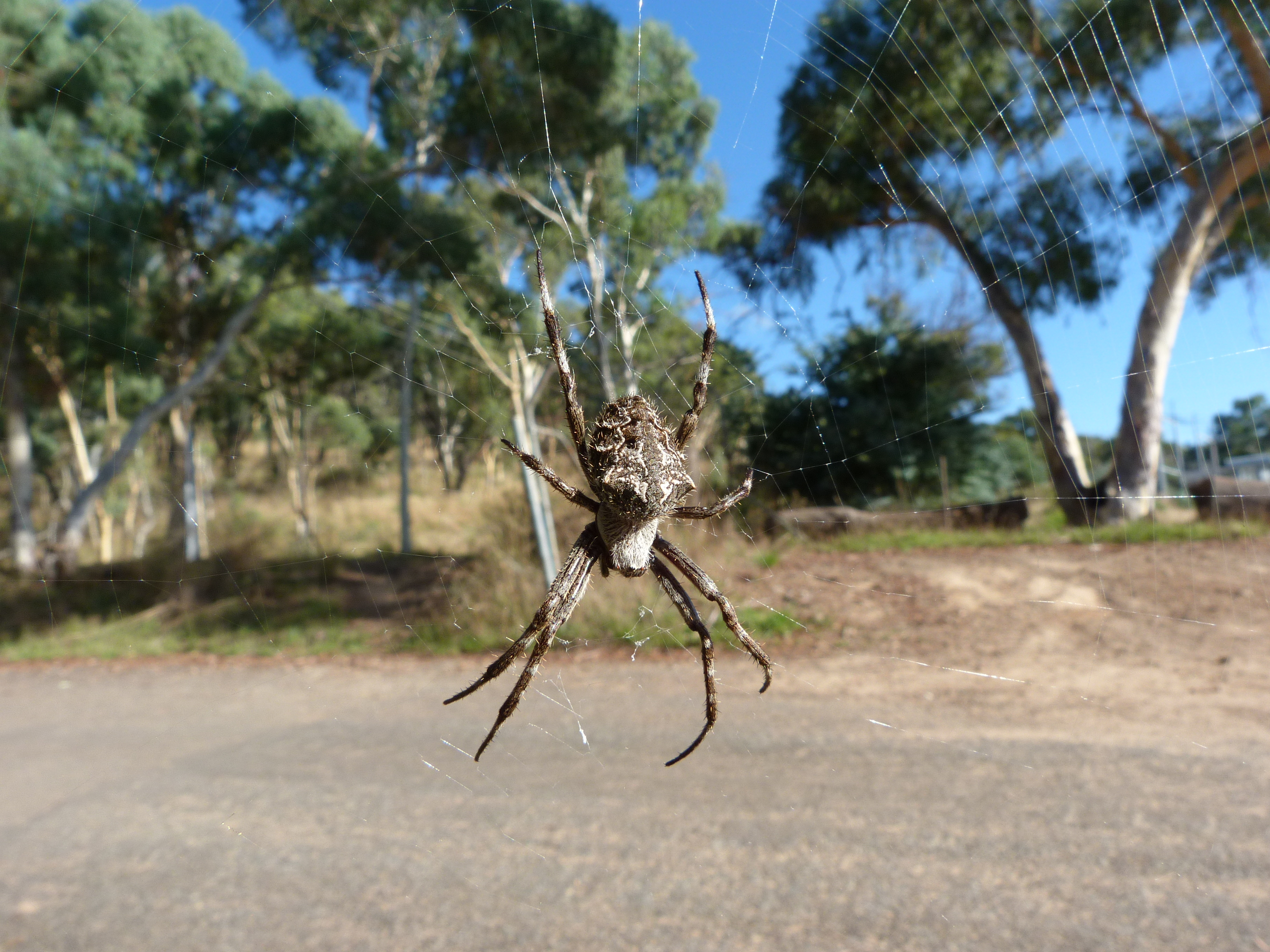 Backobourkia sp., female, Black Mountain, Canberra, ACT, 14 February 2011